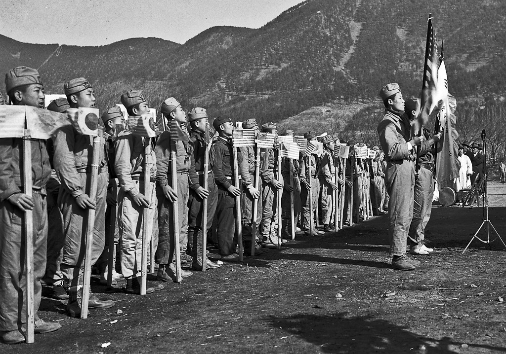 Seoul, fall of 1945. I hope that some of my Korean expert friends can identify the locatiuon. (My own memory is getting erratic affter 64 years. ) I wonder how many of these soldiers survived the Korean War that started 3.6 years after this photo was taken?